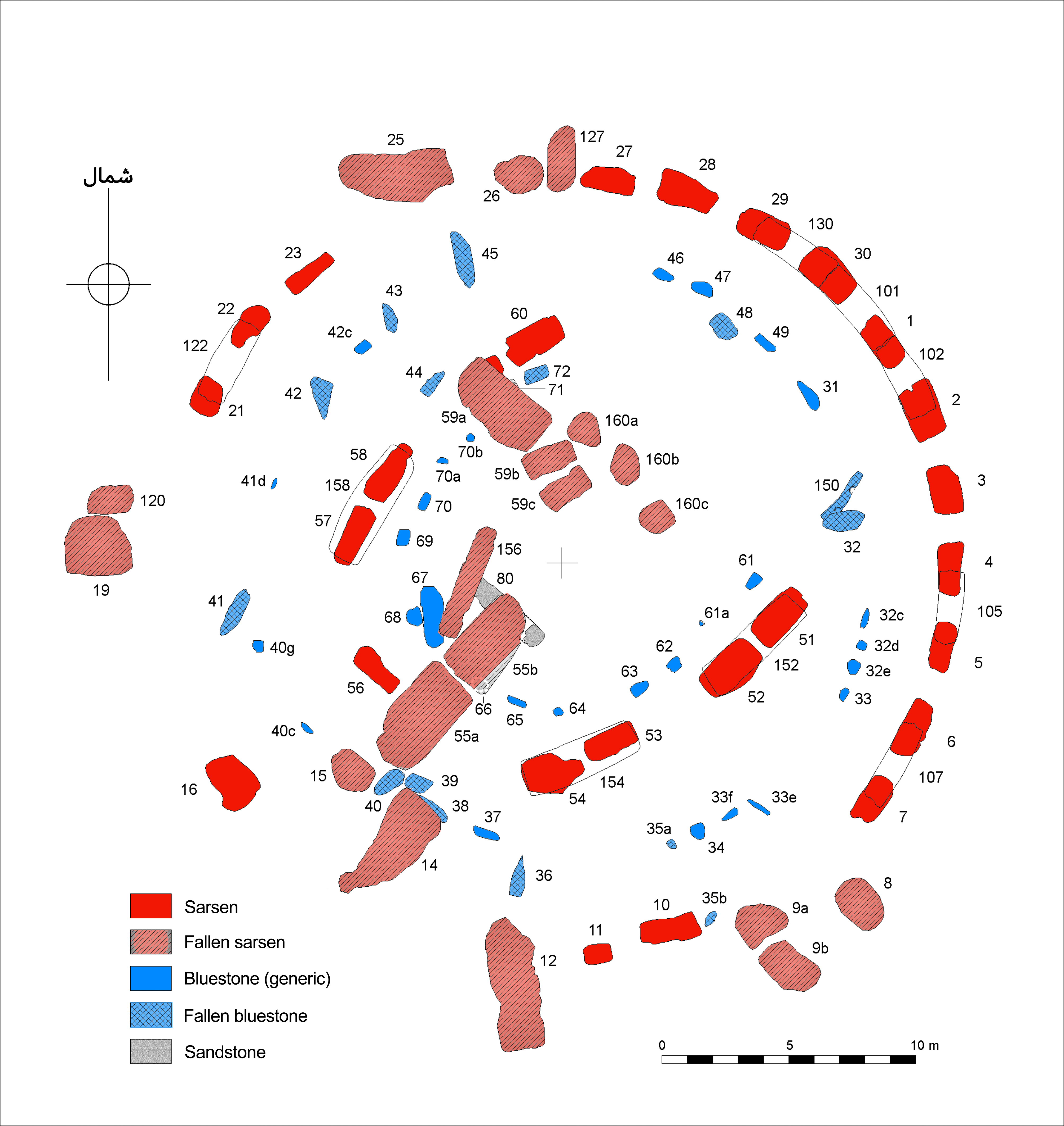 Own work based on: Stone Plan.jpg Coloured plan of the central Stone Structure at Stonehenge as it survives today.